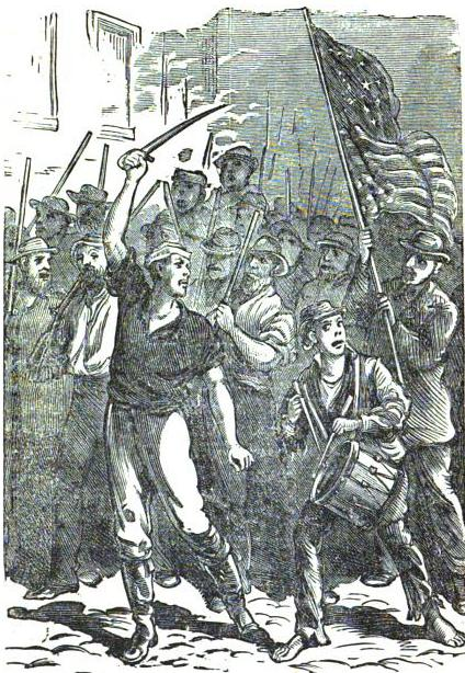 An armed mob marching to the scene of action in pittsburgh, 1877